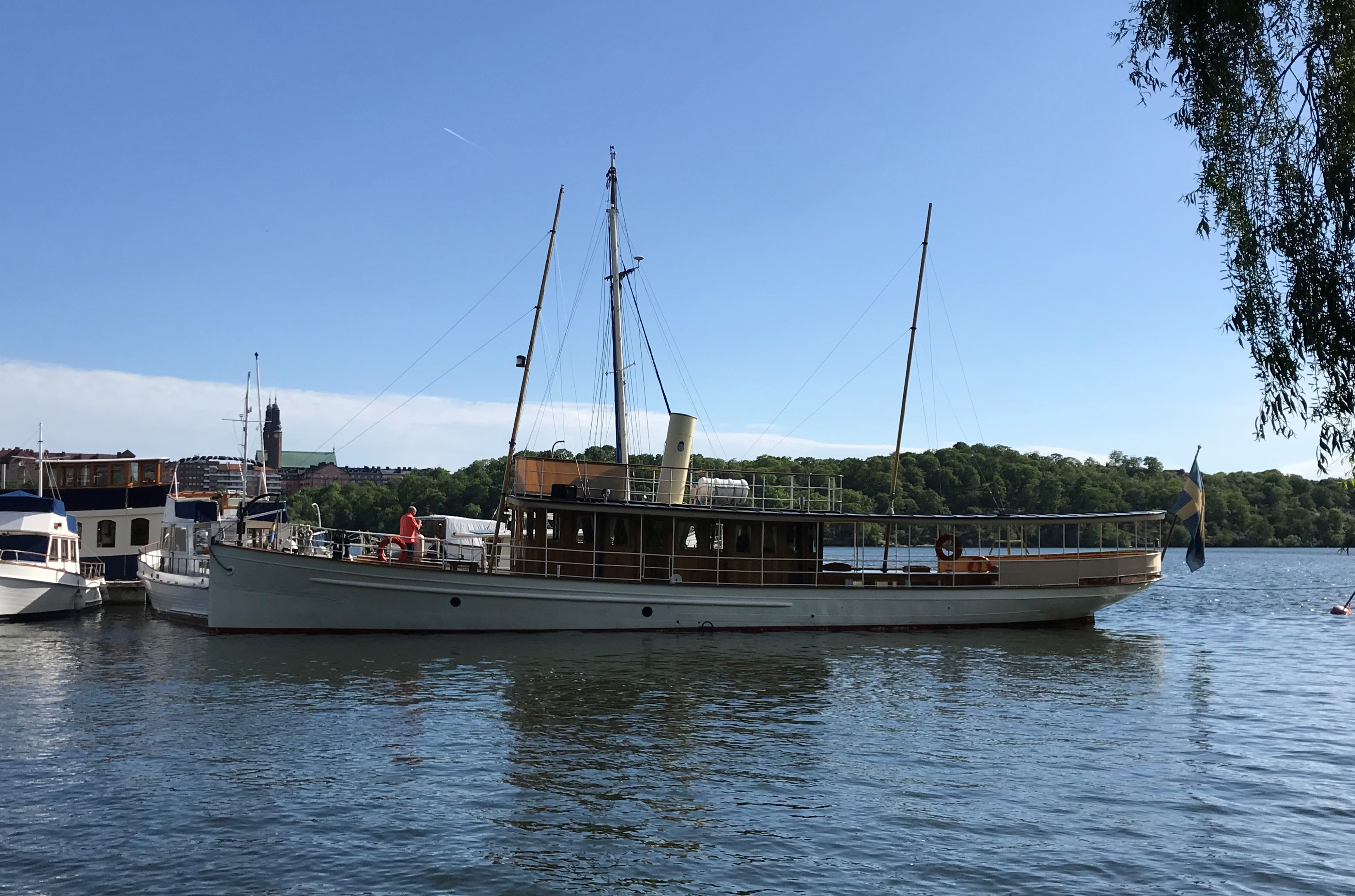 The Swedish motor yacht M/Y Arona from 1904, designed by J E Hernberg, photographed in June, 2019.